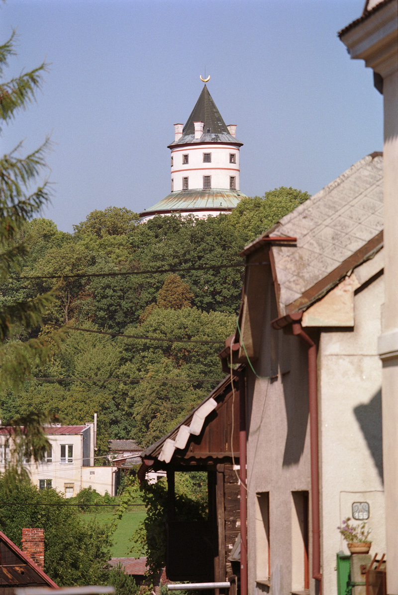 Castle Humprecht, near Sobotka in the Czech Republic picture taken by me in Summer 2004 view to the castle from Sobotka license: GFDL